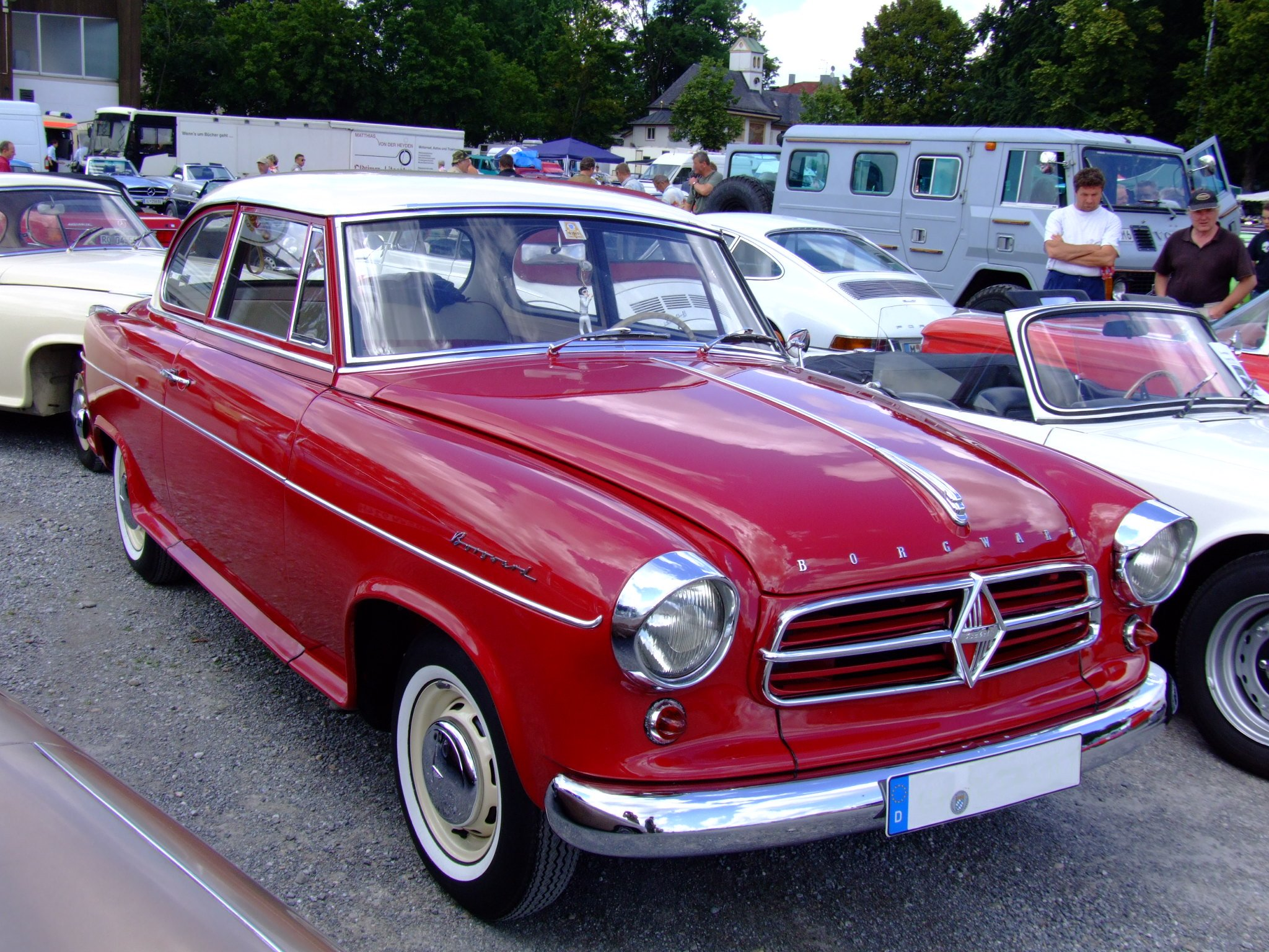 Borgward Isabella